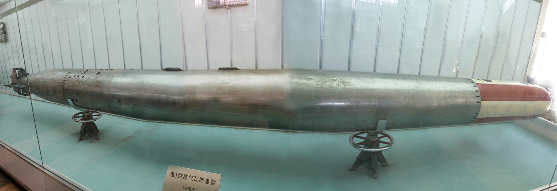 A Yu-1 Torpedo, three merged photographs taken at the Beijing Military Museum